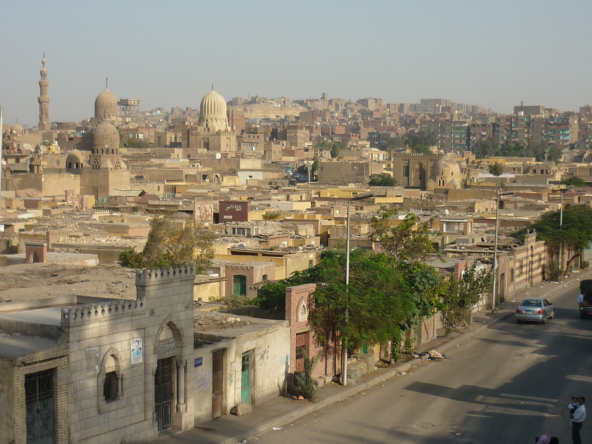 City of the Deads